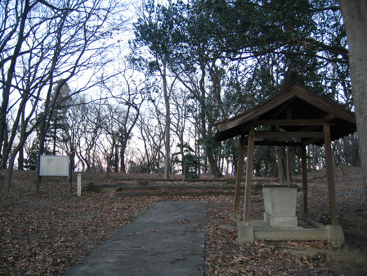 remains of Matsuyama castle in Yoshimi, Saitama, Japan